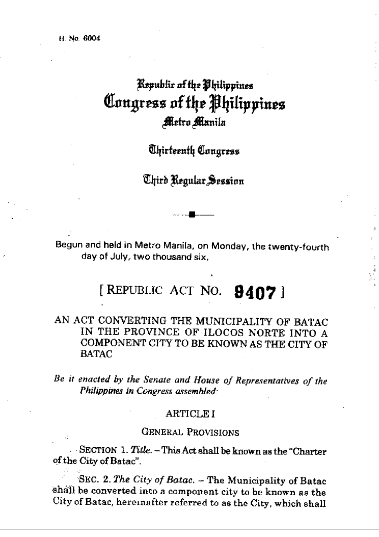 First page of Republic Act No. 9407 of the Philippines, the “Charter of the City of Batac” “an act converting the municipality of Batac in the province of Ilocos Norte into a component city to be known as the City of Batac”